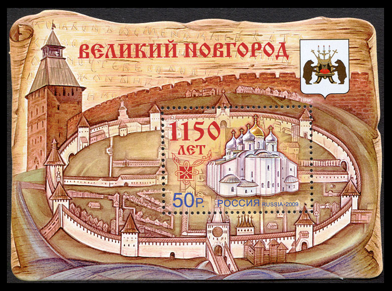 1150 years of Veliki Novgorod (souvenir sheet)